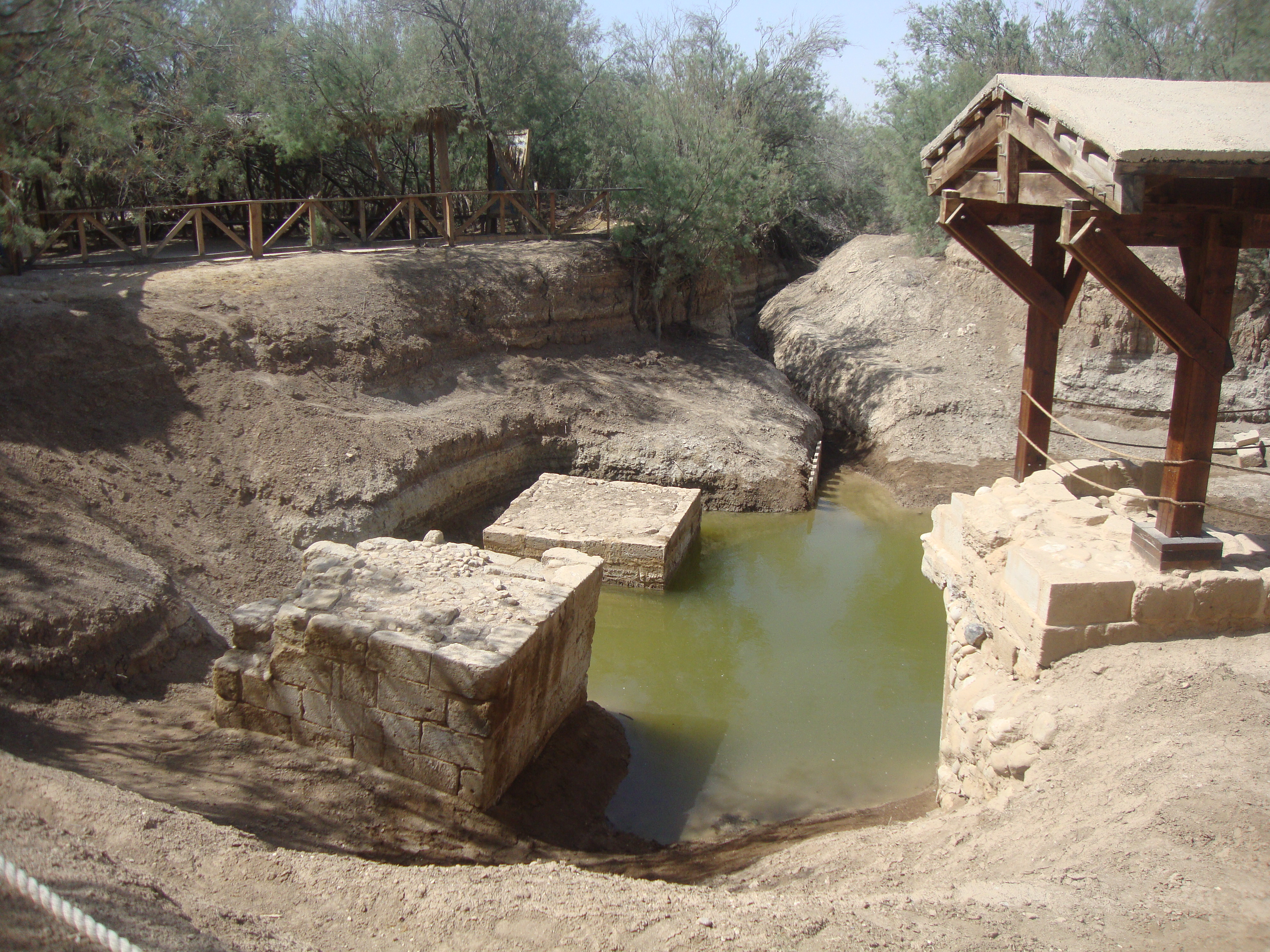 The Baptism Site of Jesus Christ at Jordan River, Jordan